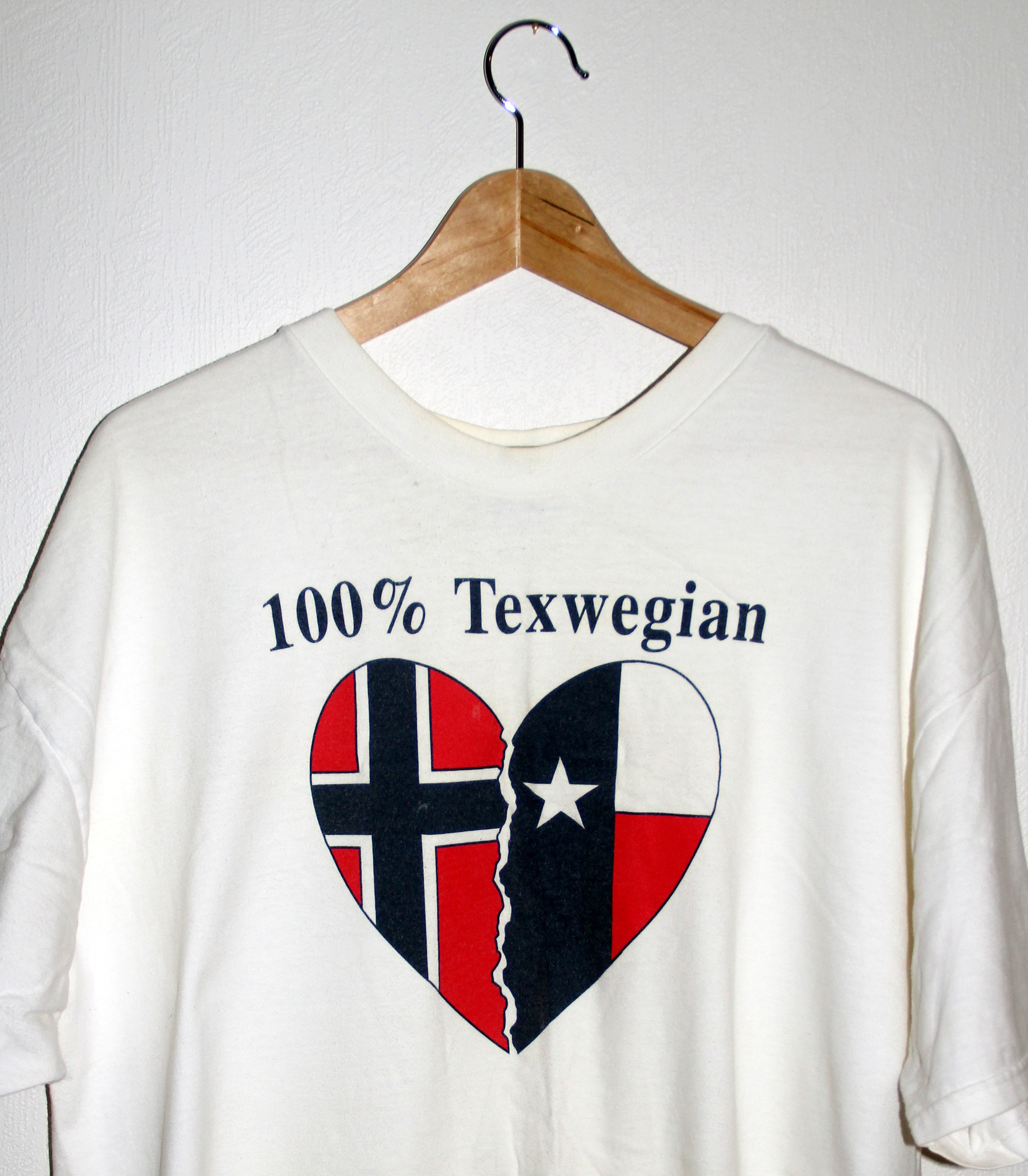 T-shirt with print: 100 % Texwegian, connected to the Norwegian Society of Texas